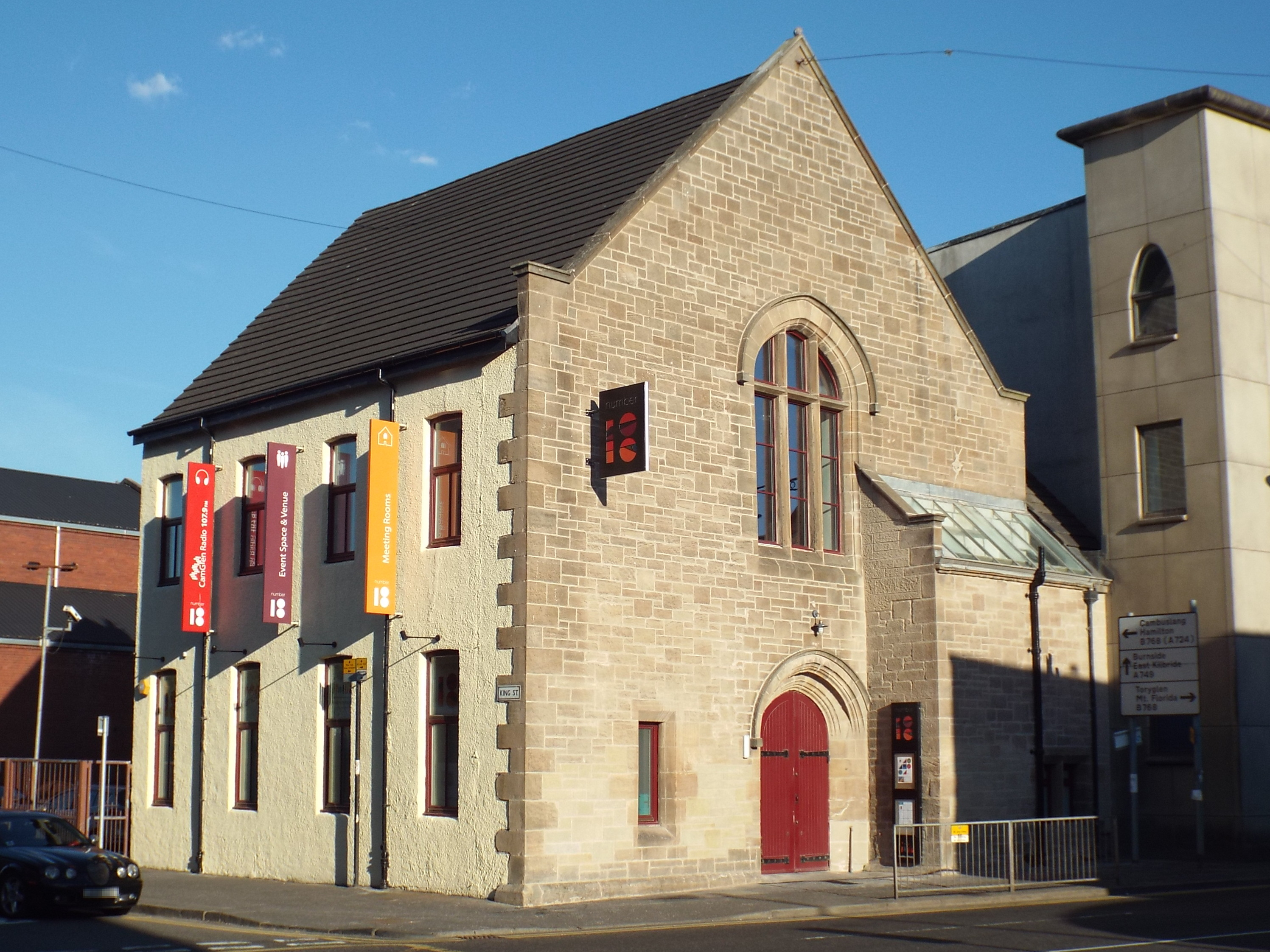 "Number 18", 18 Farmeloan Road, Rutherglen, G73 1DL. Home of CamGlen Radio.